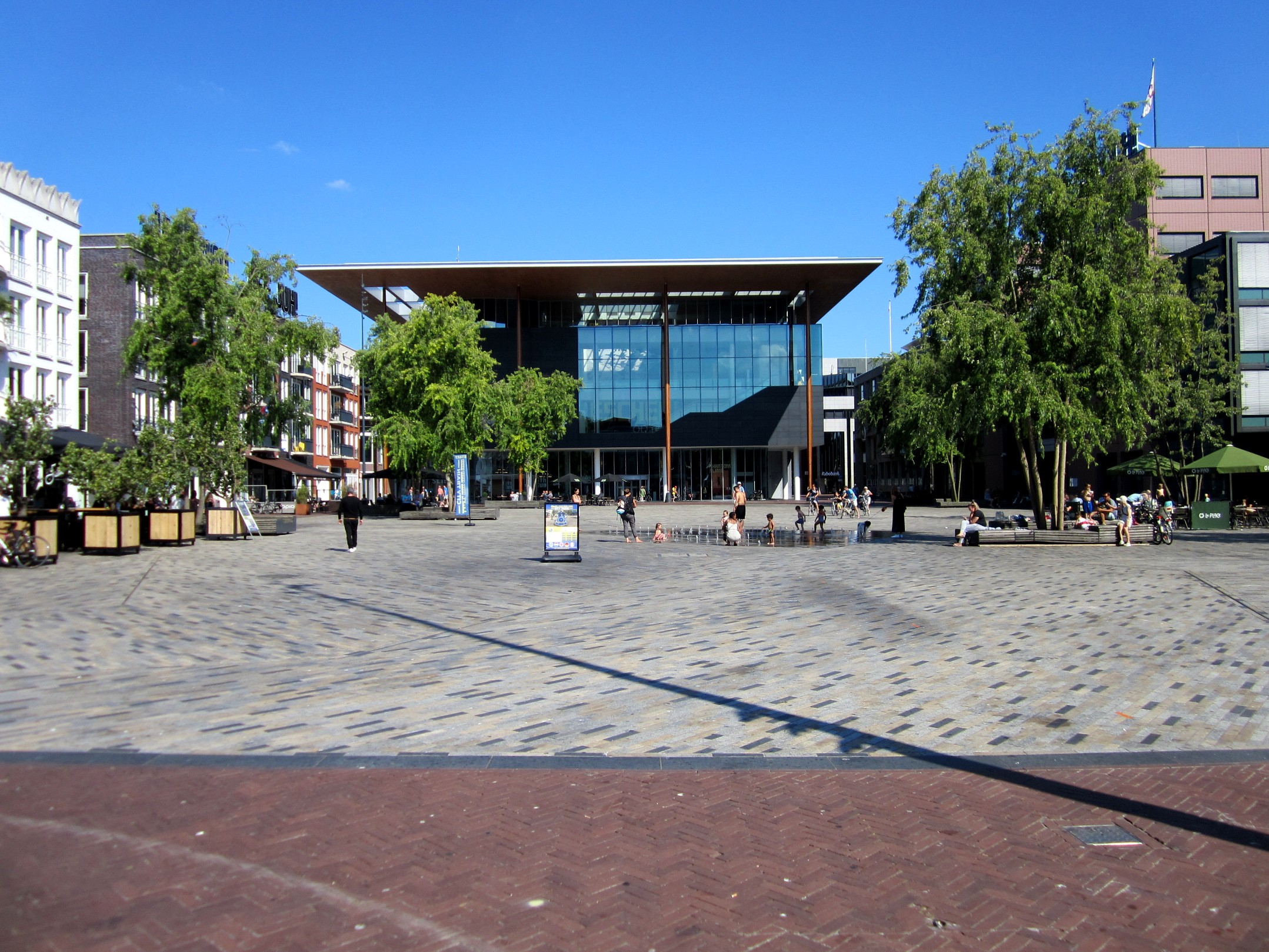 Zaailand square (Frisian: Saailân), officially Wilhelminaplein, in Leeuwarden/Ljouwert, Friesland, the Netherlands. Looking straight at the Frisian Museum building.